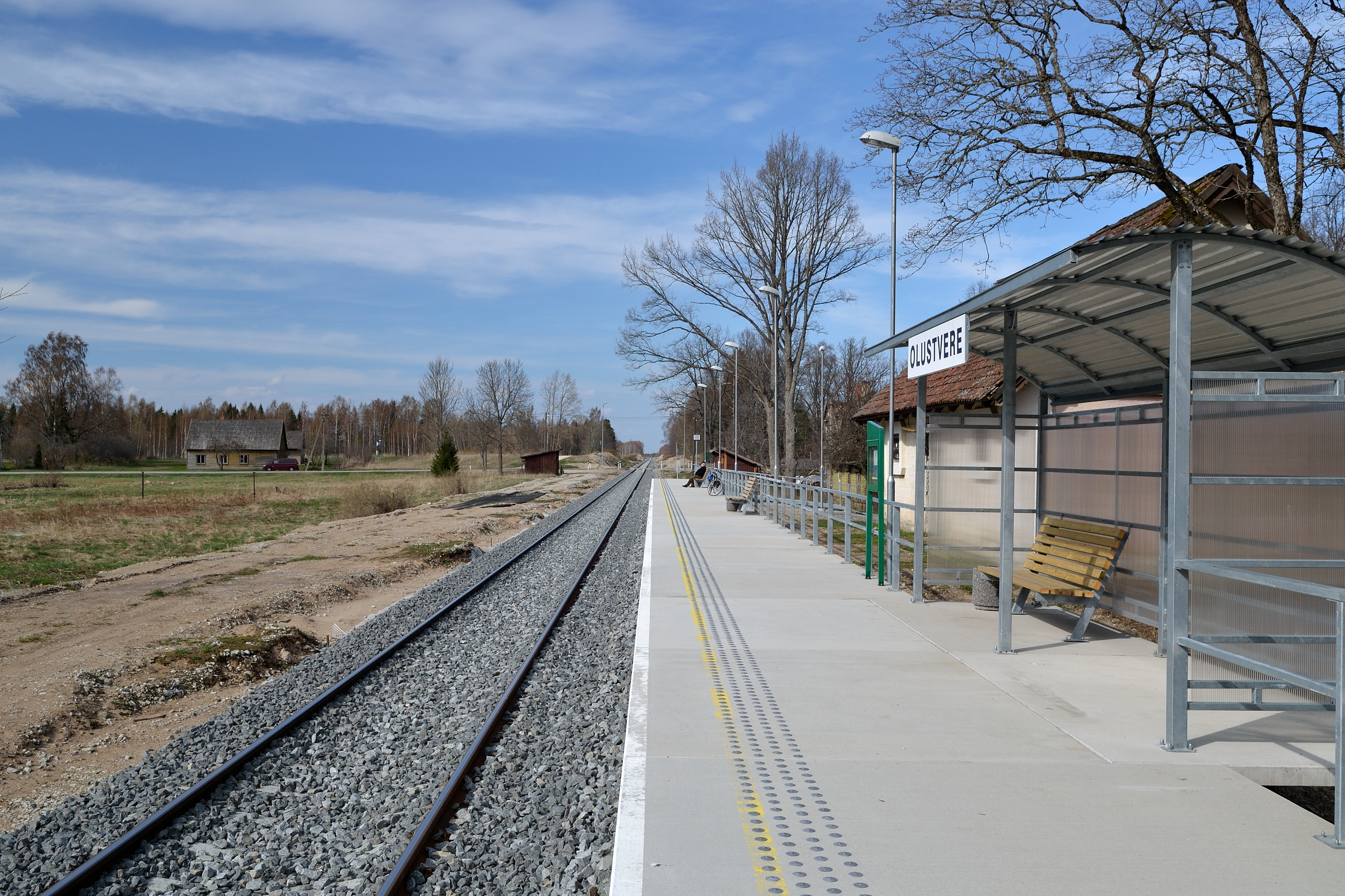 Olustvere train station